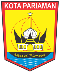 Lambang (Coat of Arms) of Kota (City) of Pariaman, Provinsi Sumatera Barat (West Sumatra Province), Indonesia